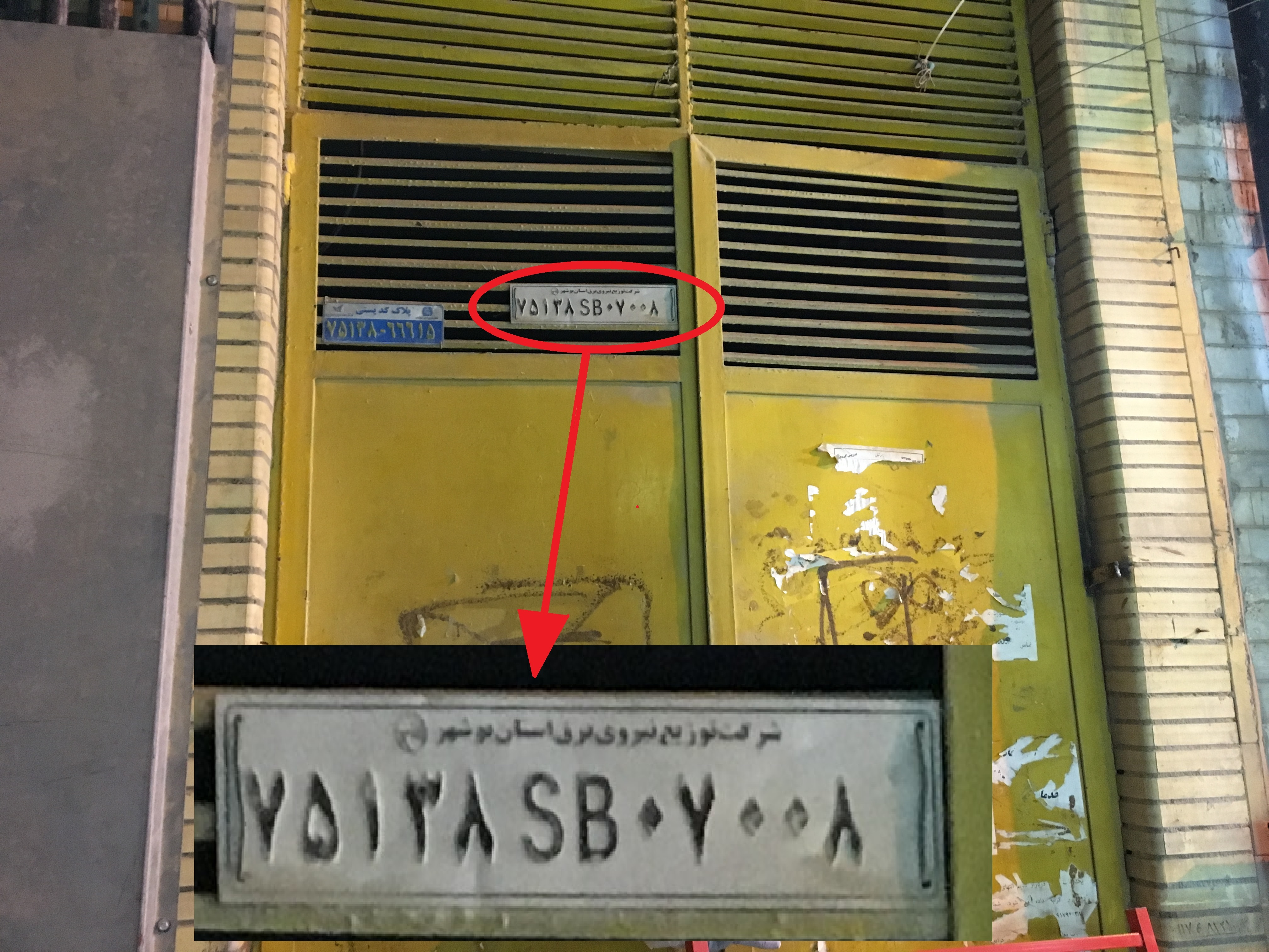 An example of Power Distribution Equipment Identification label installed on distribution substation (75138SB07008) in Bushehr, Bazar